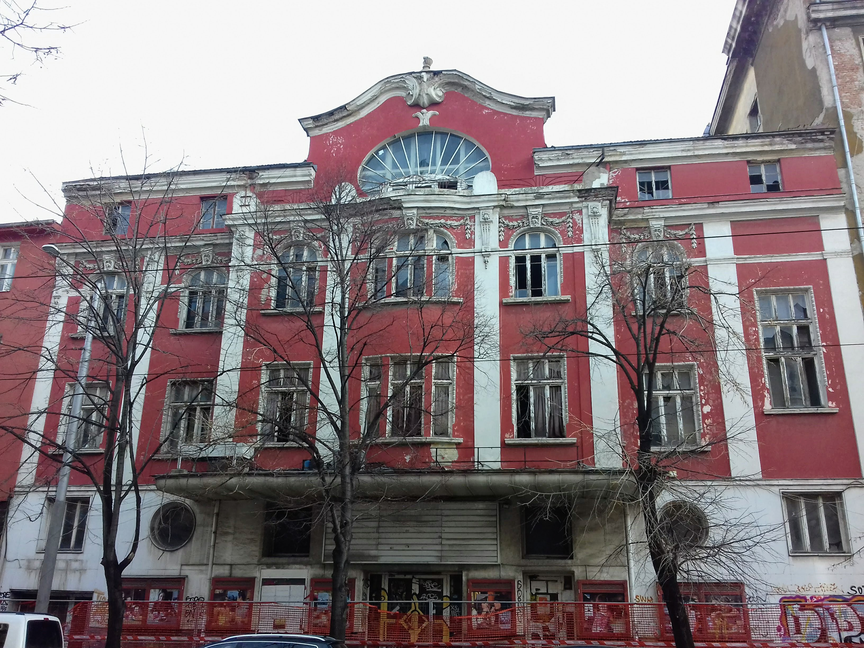 Modern Theater (Maria Luiza Cinema), Sofia